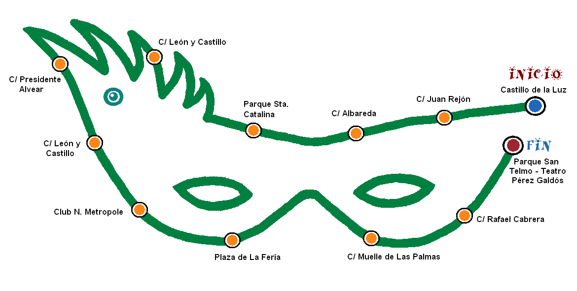 Dibujo del recorrido de la cabalgata del carnaval de la ciudad de Las Palmas de Gran Canaria, (España).